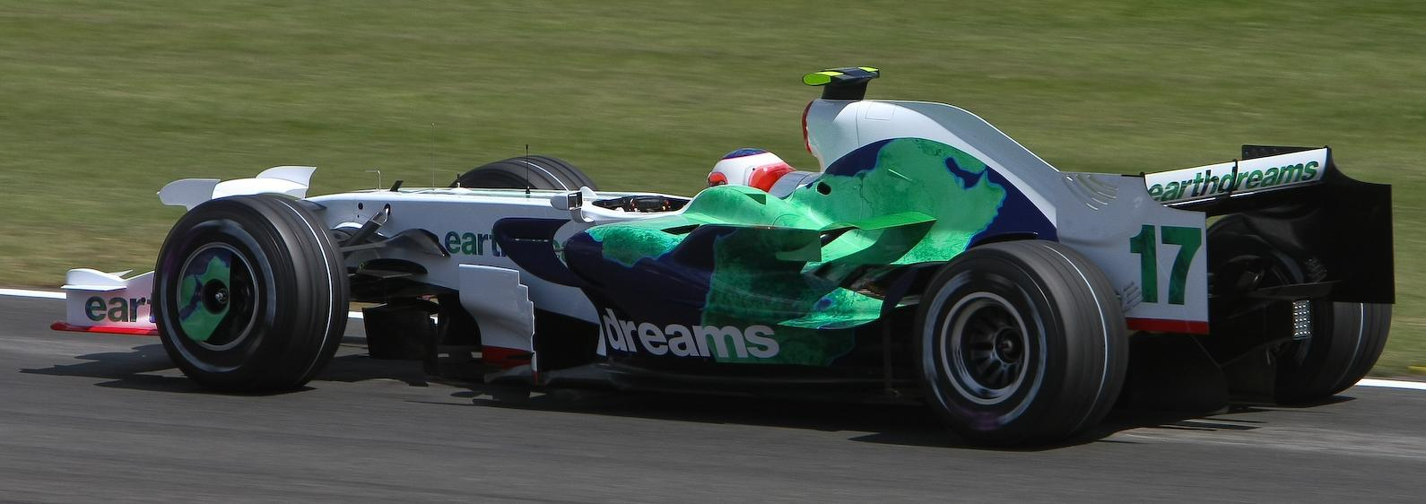 Rubens Barrichello driving for Honda F1 at the 2008 British Grand Prix.